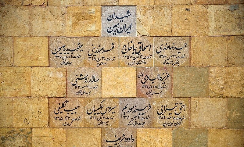 Jewish martyrs grave in Tehran